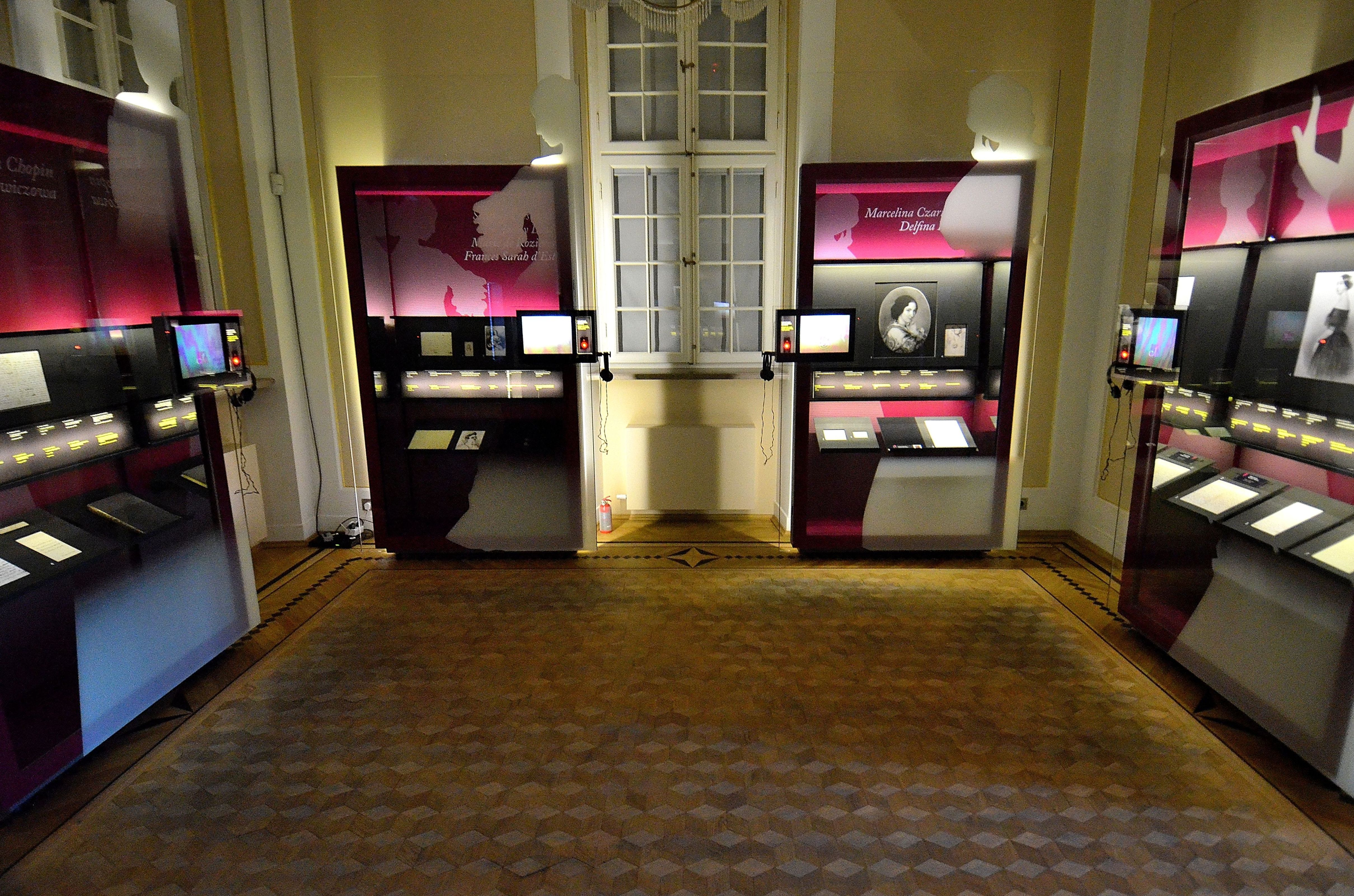 Frederick Chopin Museum in Warsaw